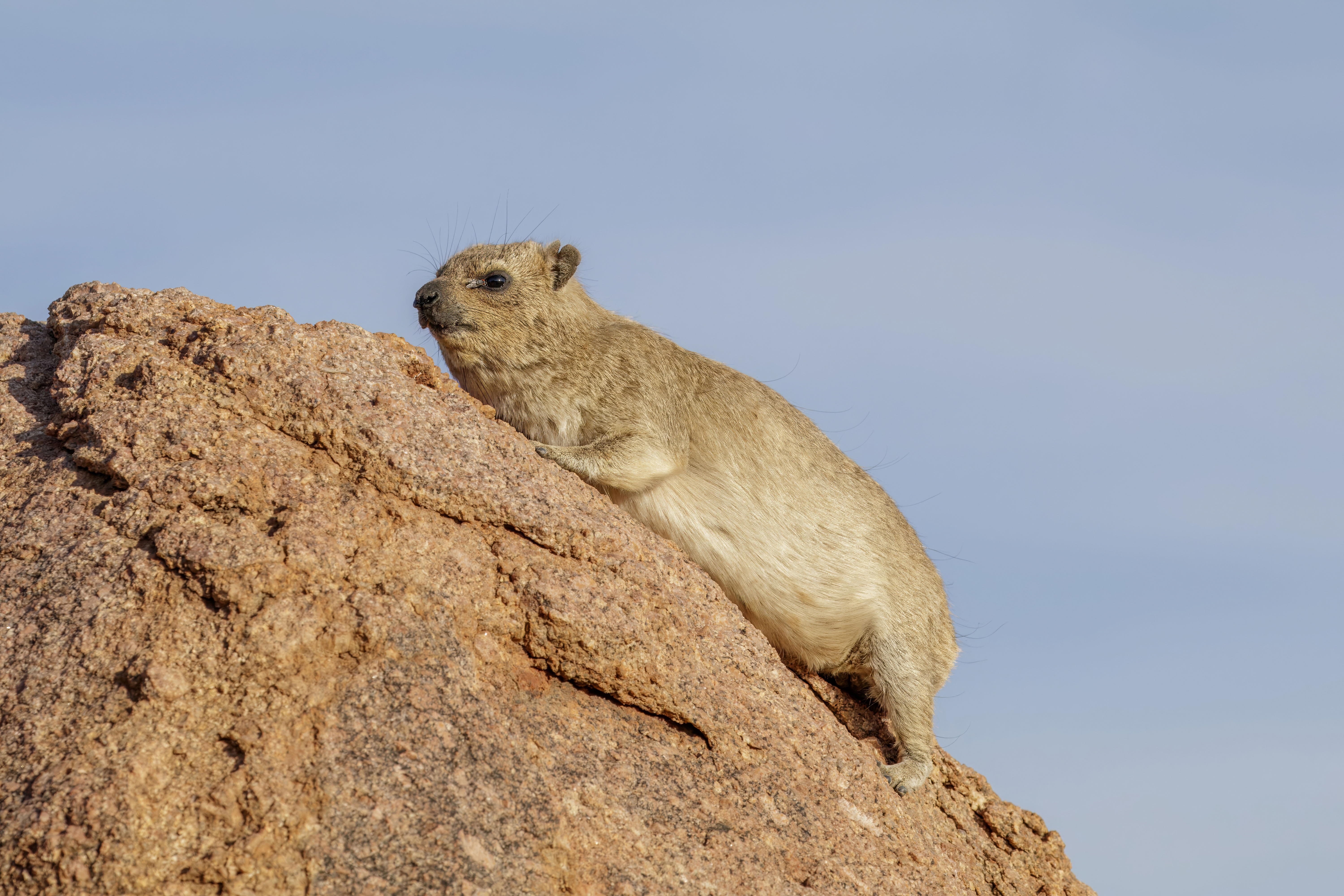 Rock hyrax (Procavia capensis) with flesh fly (Sarcophaga sp.), Damaraland, Namibia